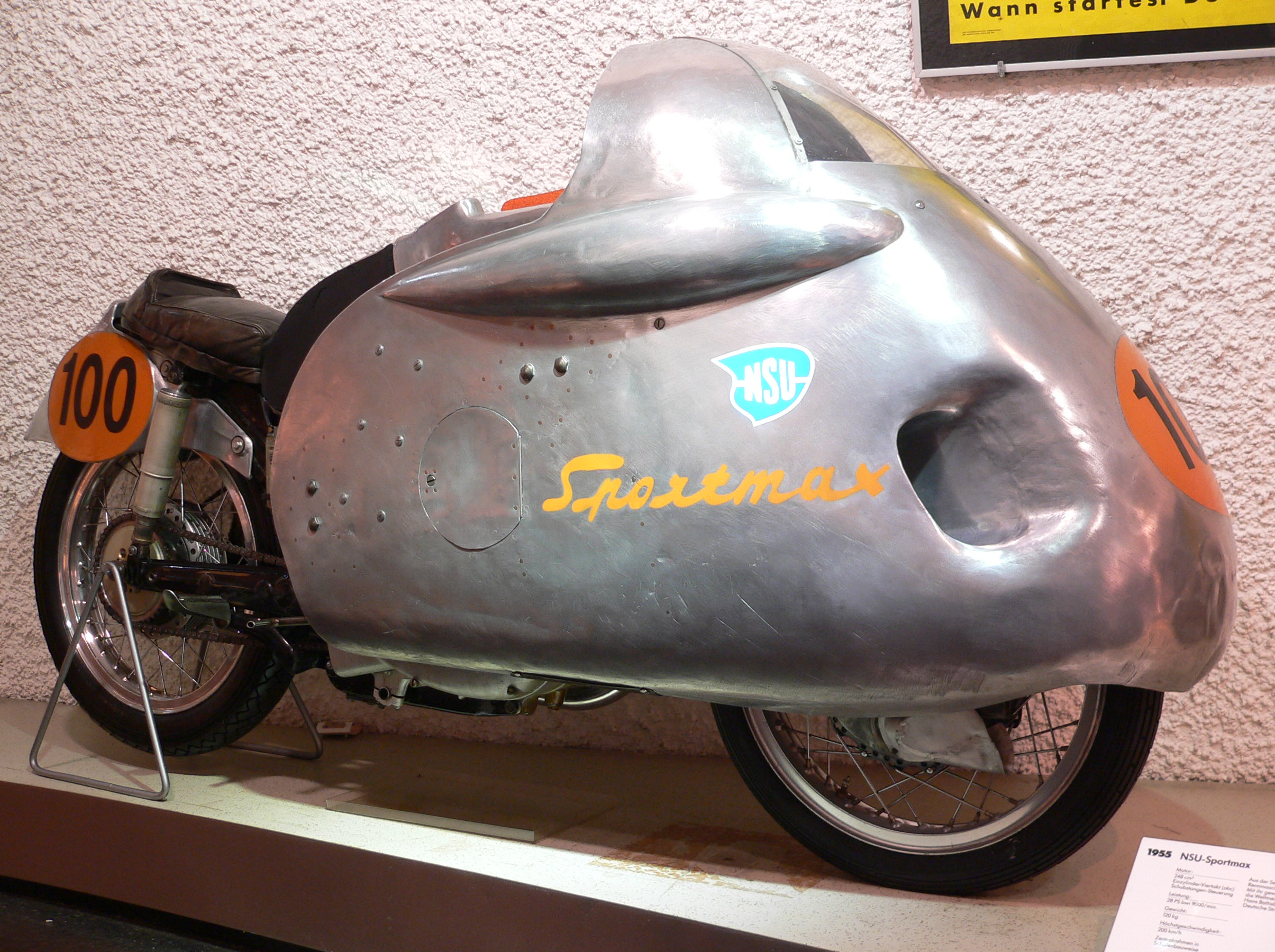 Motorbike "NSU SportMax" (1955) at the Deutsches Zweirad- und NSU-Museum (248 cm³, Einzylinder-Viertakt (ohc), 28 PS bei 9.000 U/Min., 120 Kg, 200 Km/h) with this motorcycle H-P.Müller won the world championchip 1955 and Hans Baltisberger won the German road race championchip